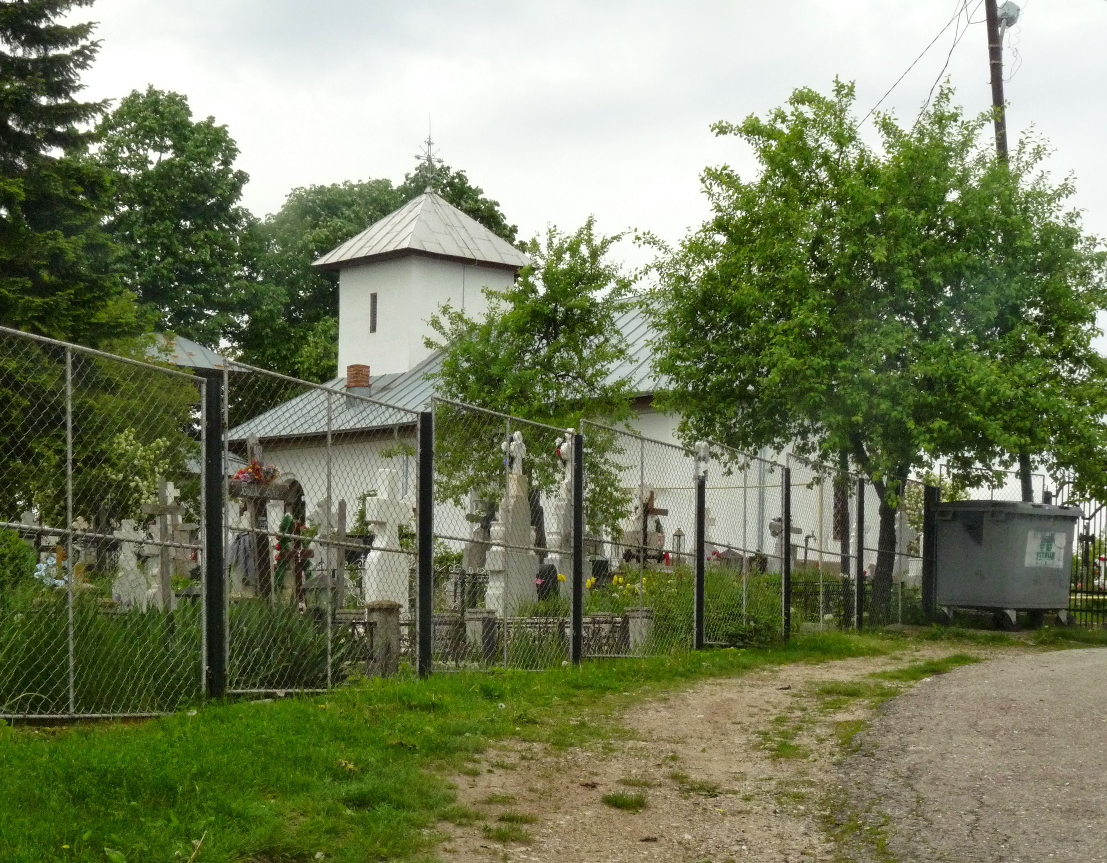 Holy Trinity church in Seciu, Boldești-Scăeni town, Prahova County, RomaniaRomână: Biserica „Sfânta Treime” din Seciu, orașul Boldești-Scăeni, județul Prahova, România